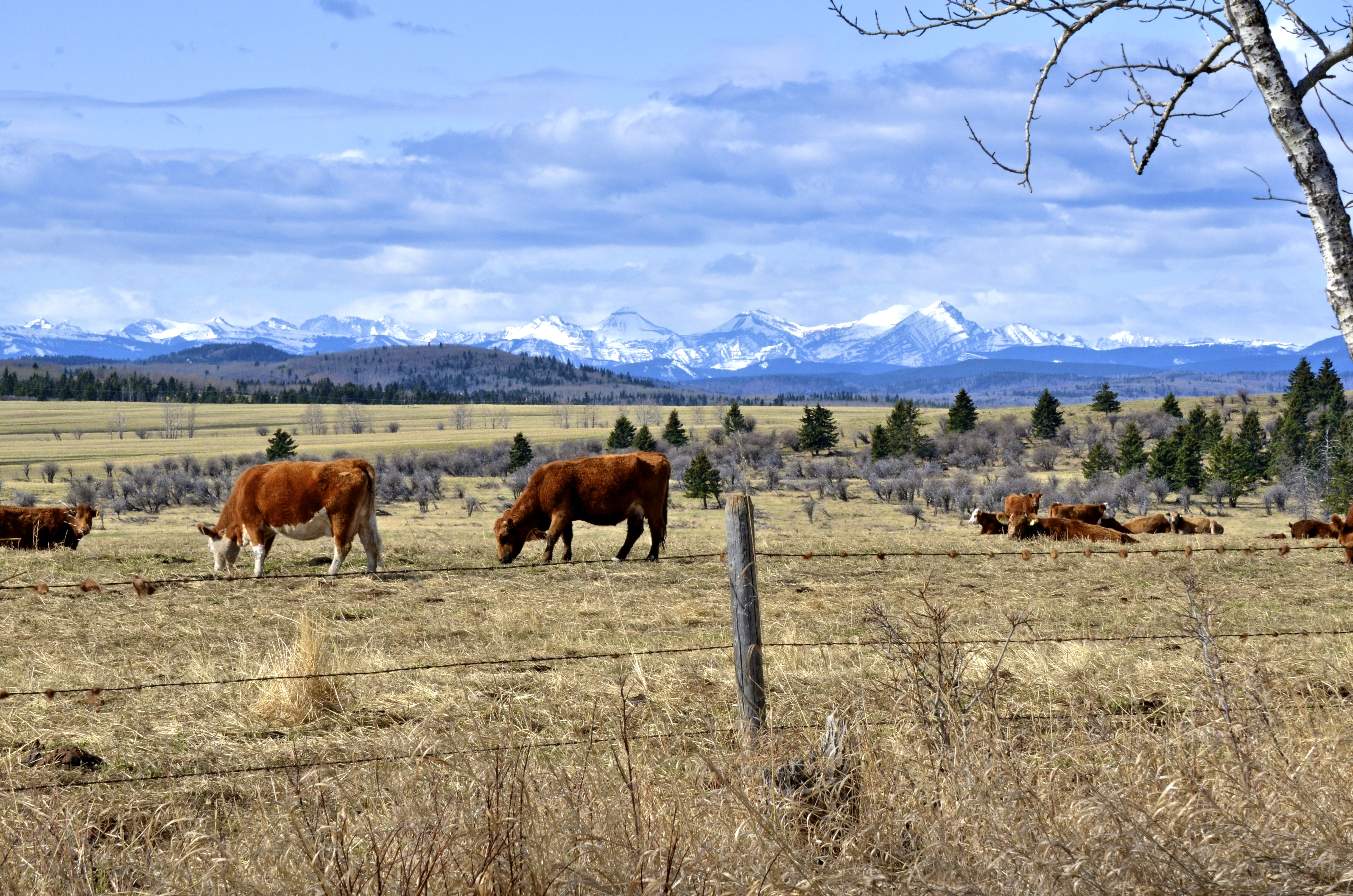 Cows in the Foothills